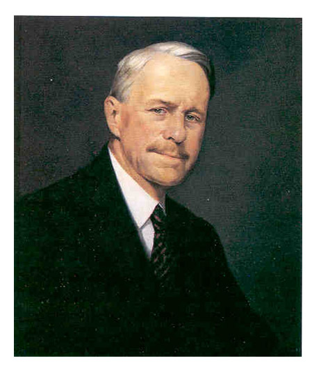 US Government photograph of US House of Representatives' Portrait of William R. Green, former chair, House Ways and Means Committee